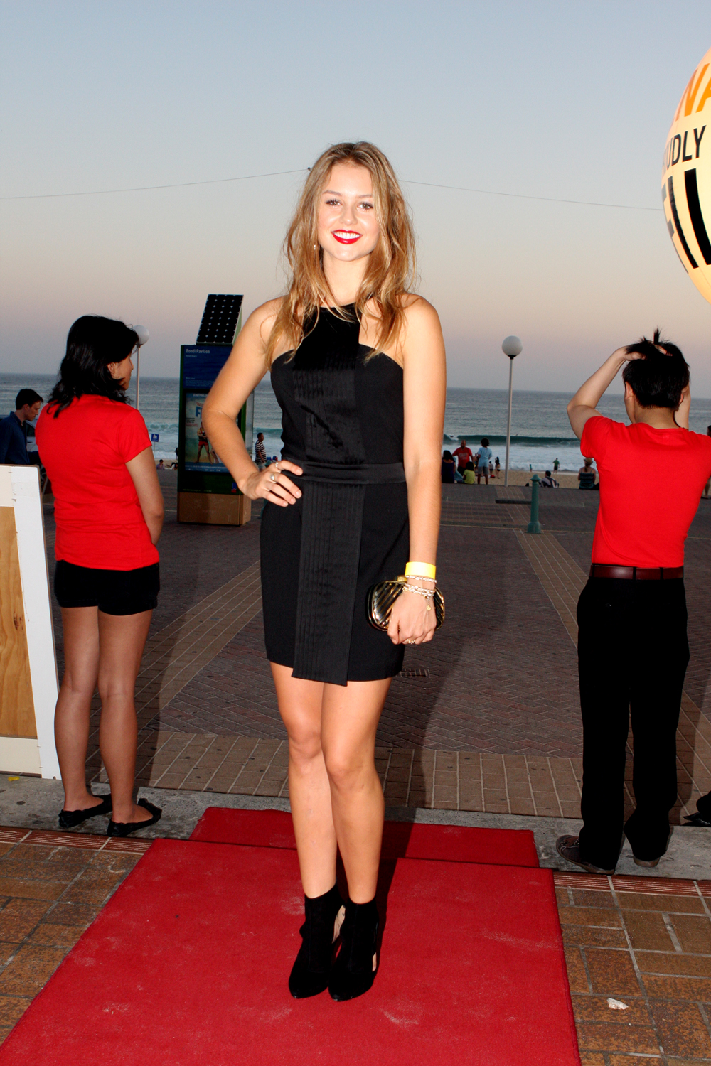 Flickerfest Short Film Festival opens at Bondi Pavilion, Bondi Beach, Sydney, Australia - 11th January 2013...